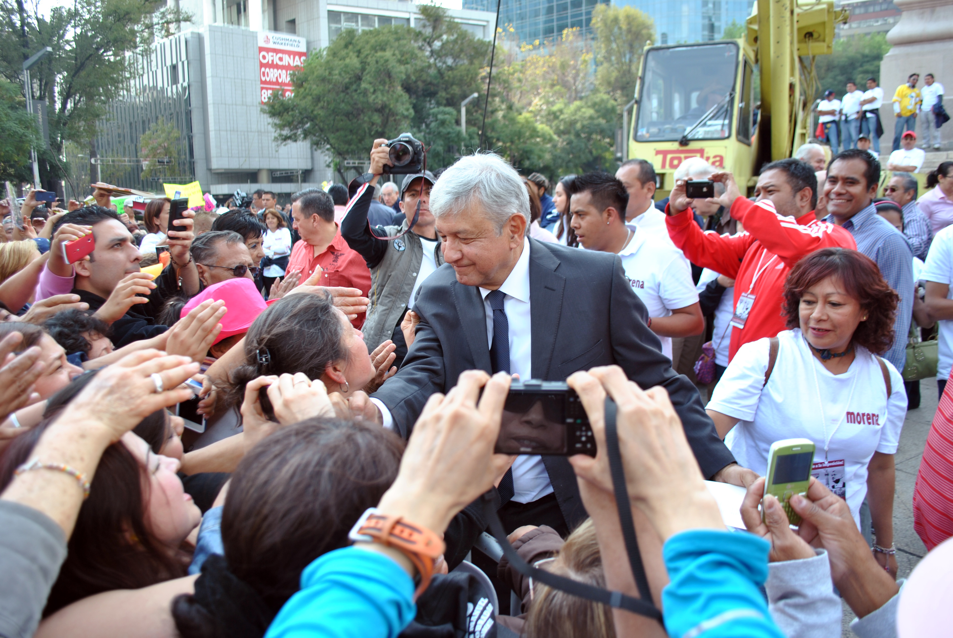 Andres Manuel Lopez Obrador in a rally at the Angel of Independence, for the swearing of Enrique Peña Nieto.